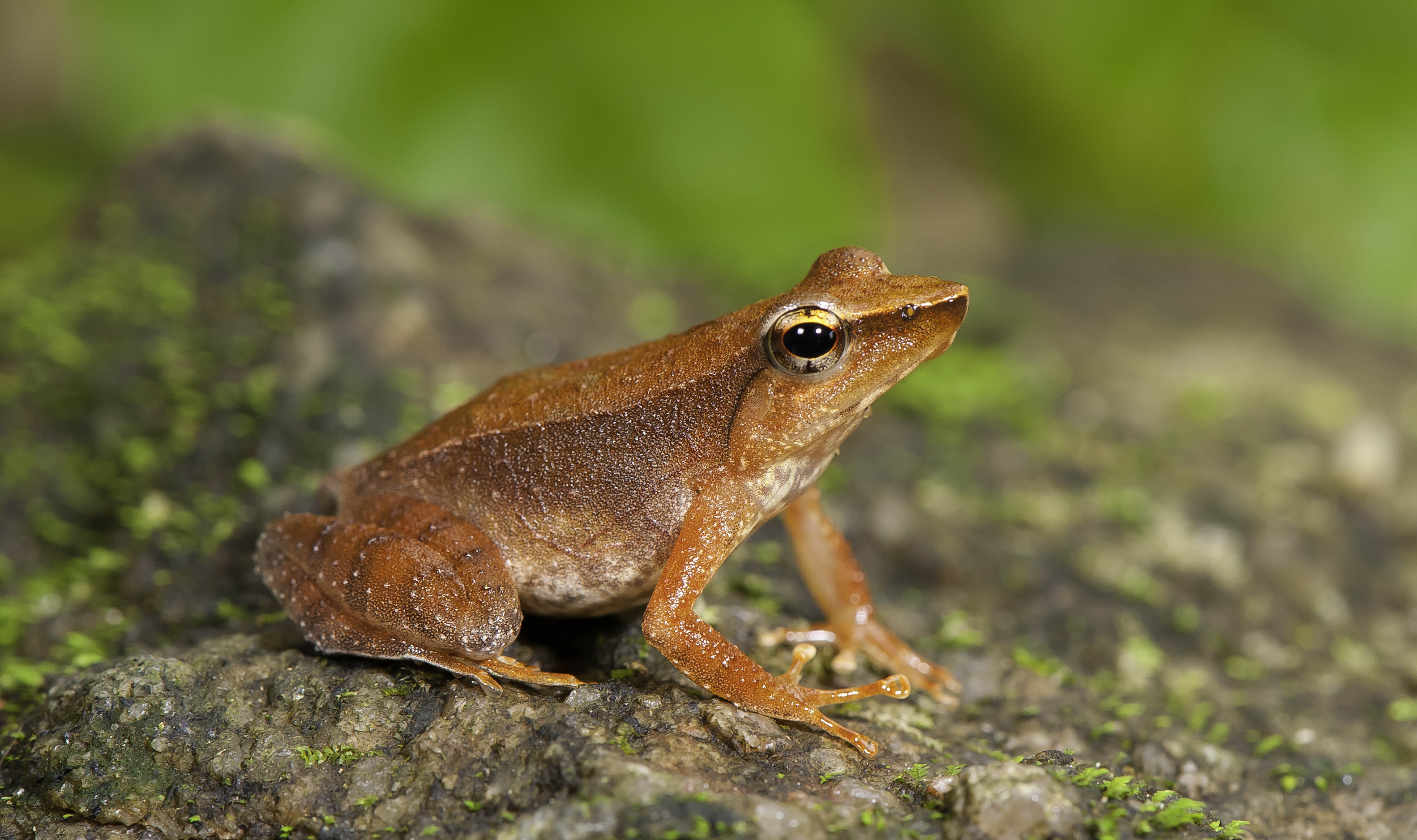 Micrixalus nelliyampathi, a dancing frog from India.